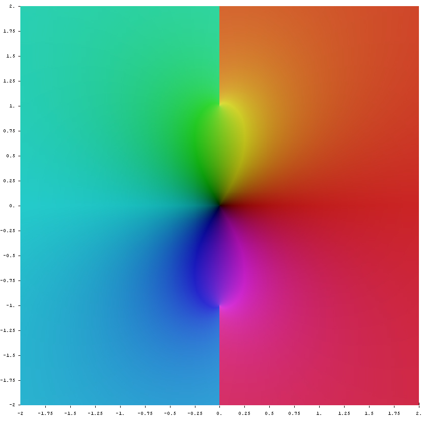 function ArcTan[z] in the complex plane